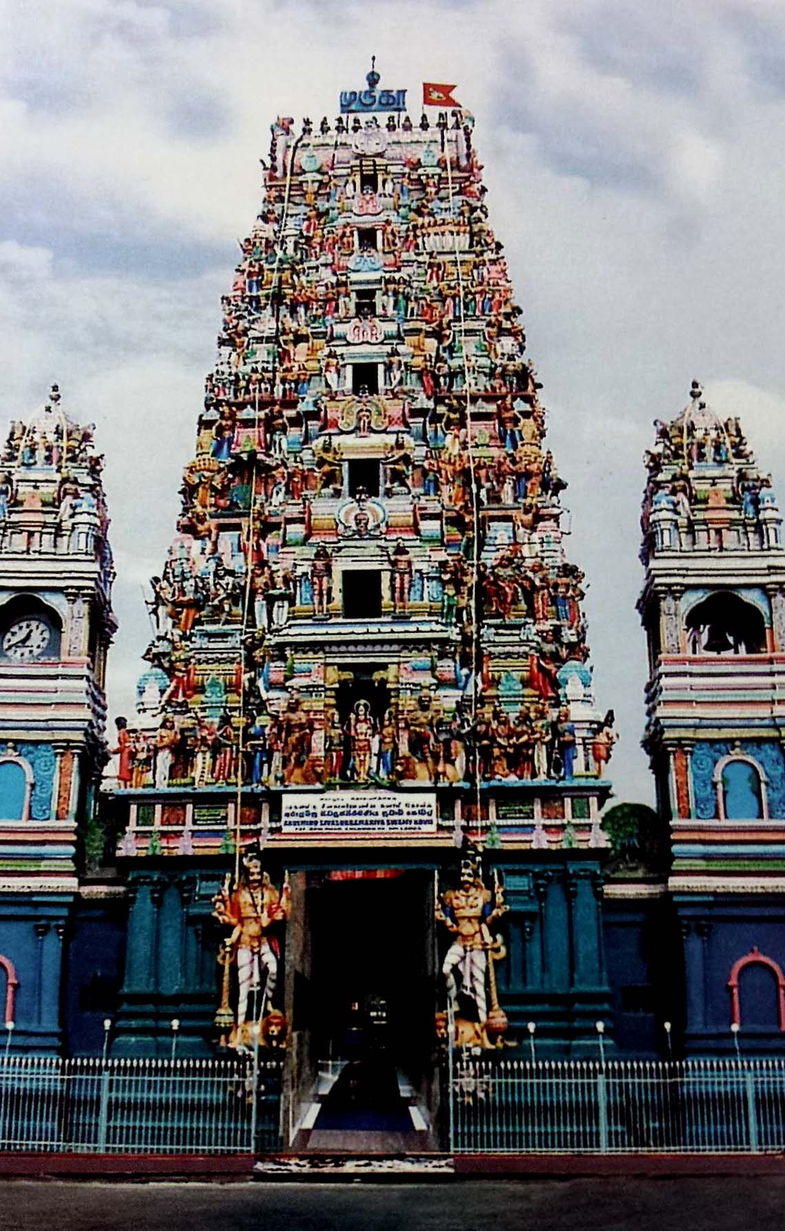 Slave Island Murugan Kovil, Colombo.